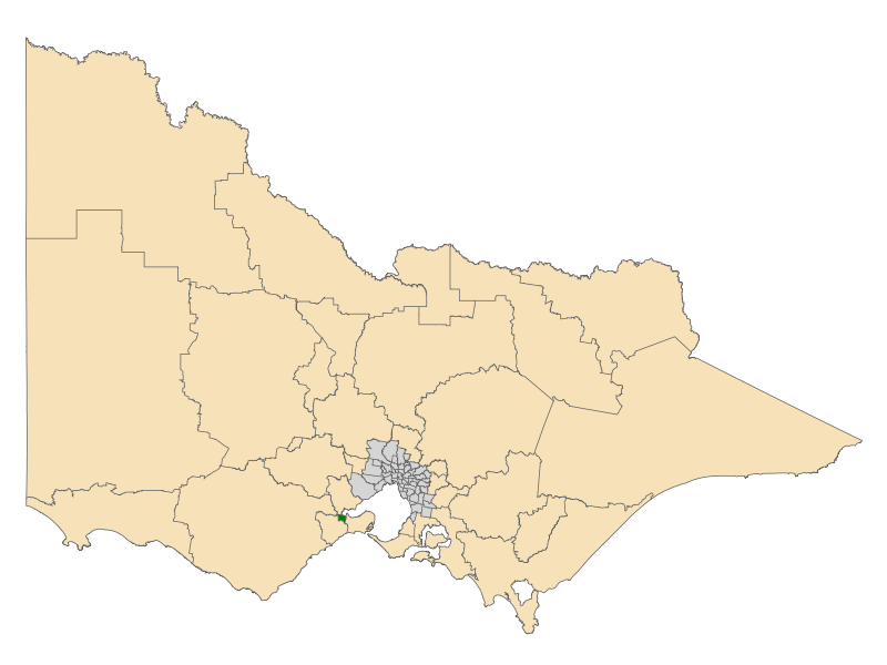 Location of the Electoral District of Geelong (dark green) in the state of Victoria, Australia. These boundaries were used for the Victorian state election on 29 November 2014.